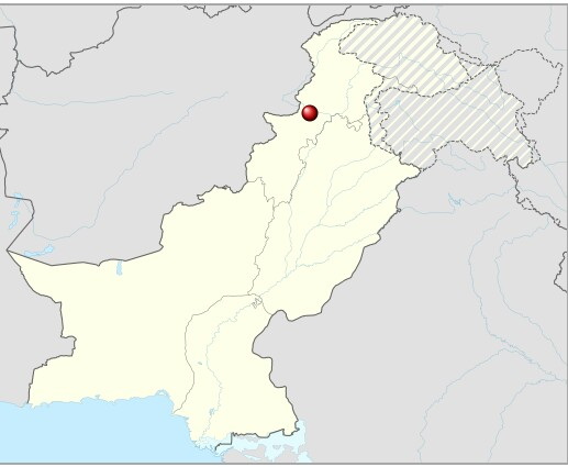 पेशावर